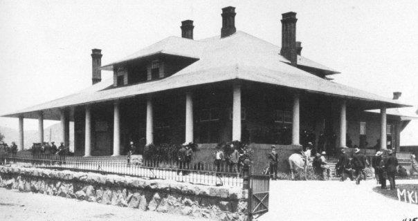 The home of William Cornell Greene (1852-1911) in Cananea, Sonora, Mexico.